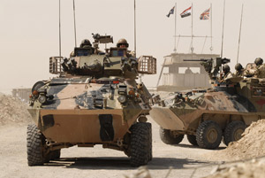 Australian armored vehicles move out of Camp Smitty and begin their relocation to Camp Terendak, Tallil. Courtesy photo.